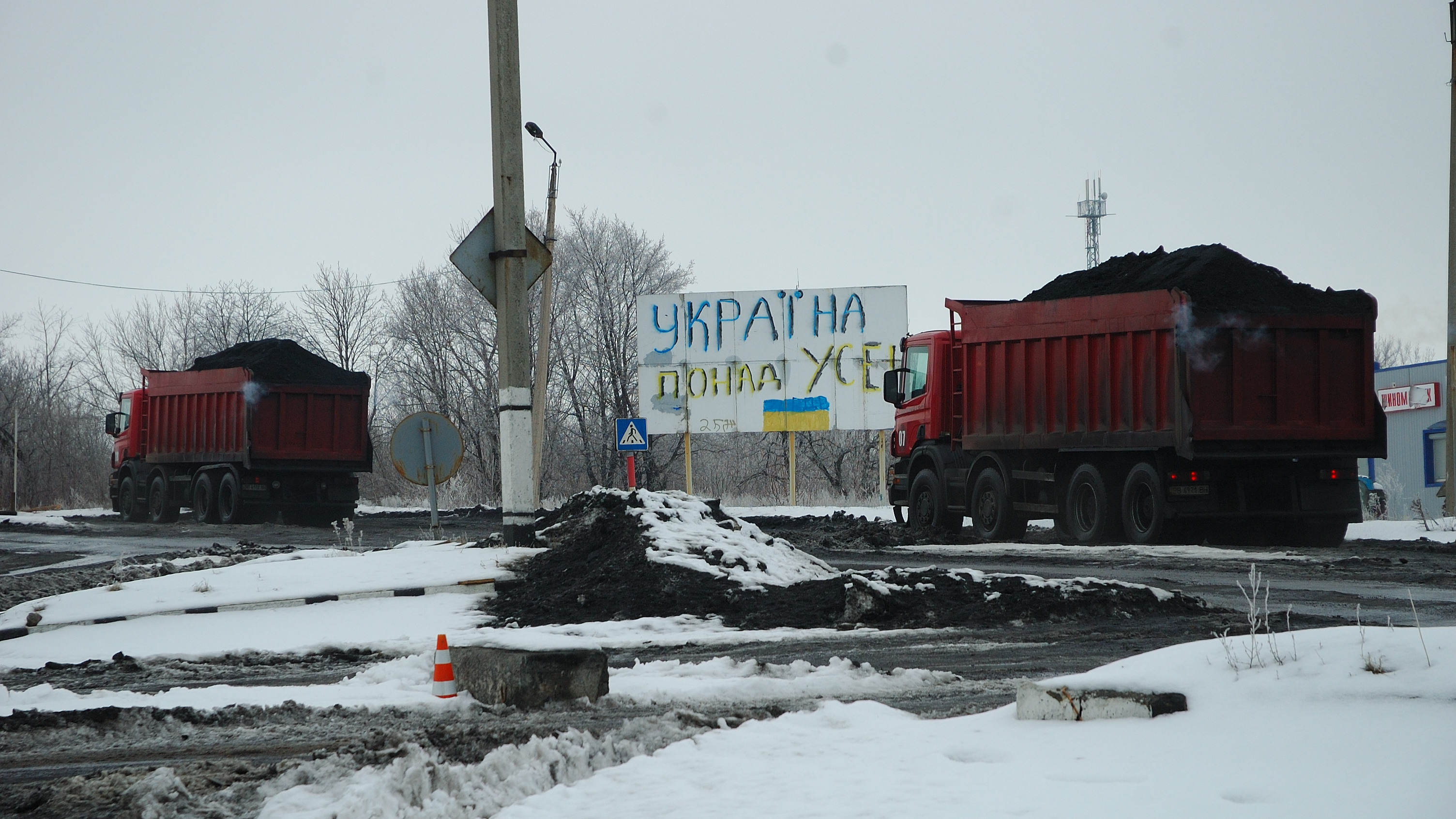 The separatists supply Ukraine with coal along the officially approved by the Ukrainian Army transport corridor Fashivka - Debaltseve - Artemivsk that runs across the front lines in Donbass.